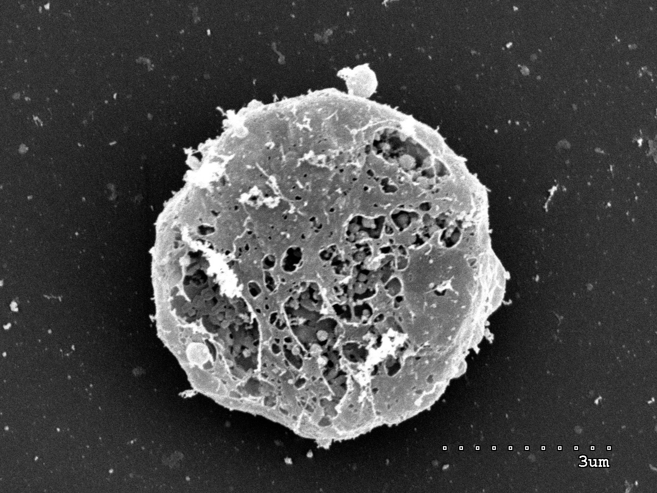 SEM microscopy